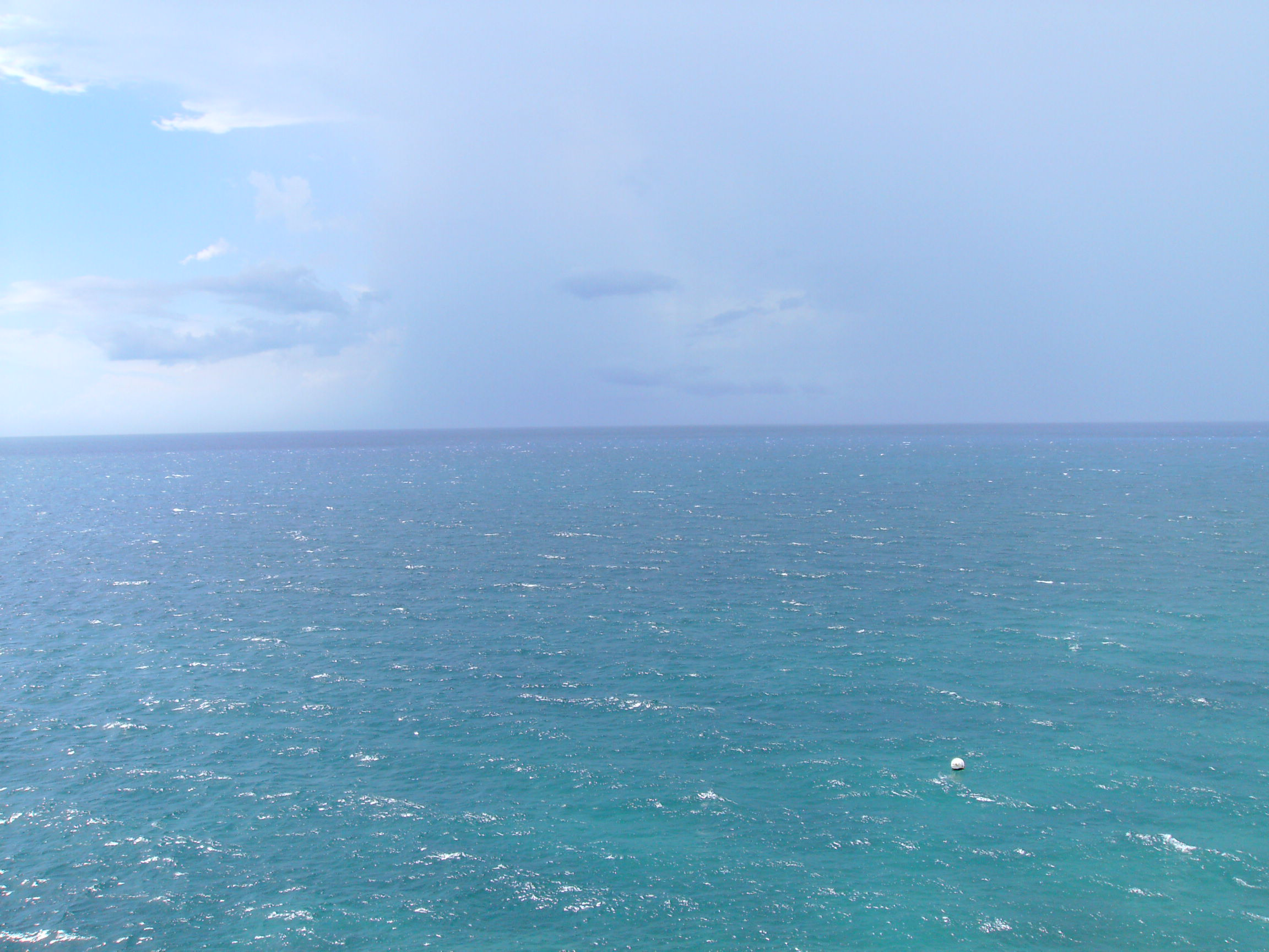 A clear day in Negril, Jamaica, 2008, facing west.